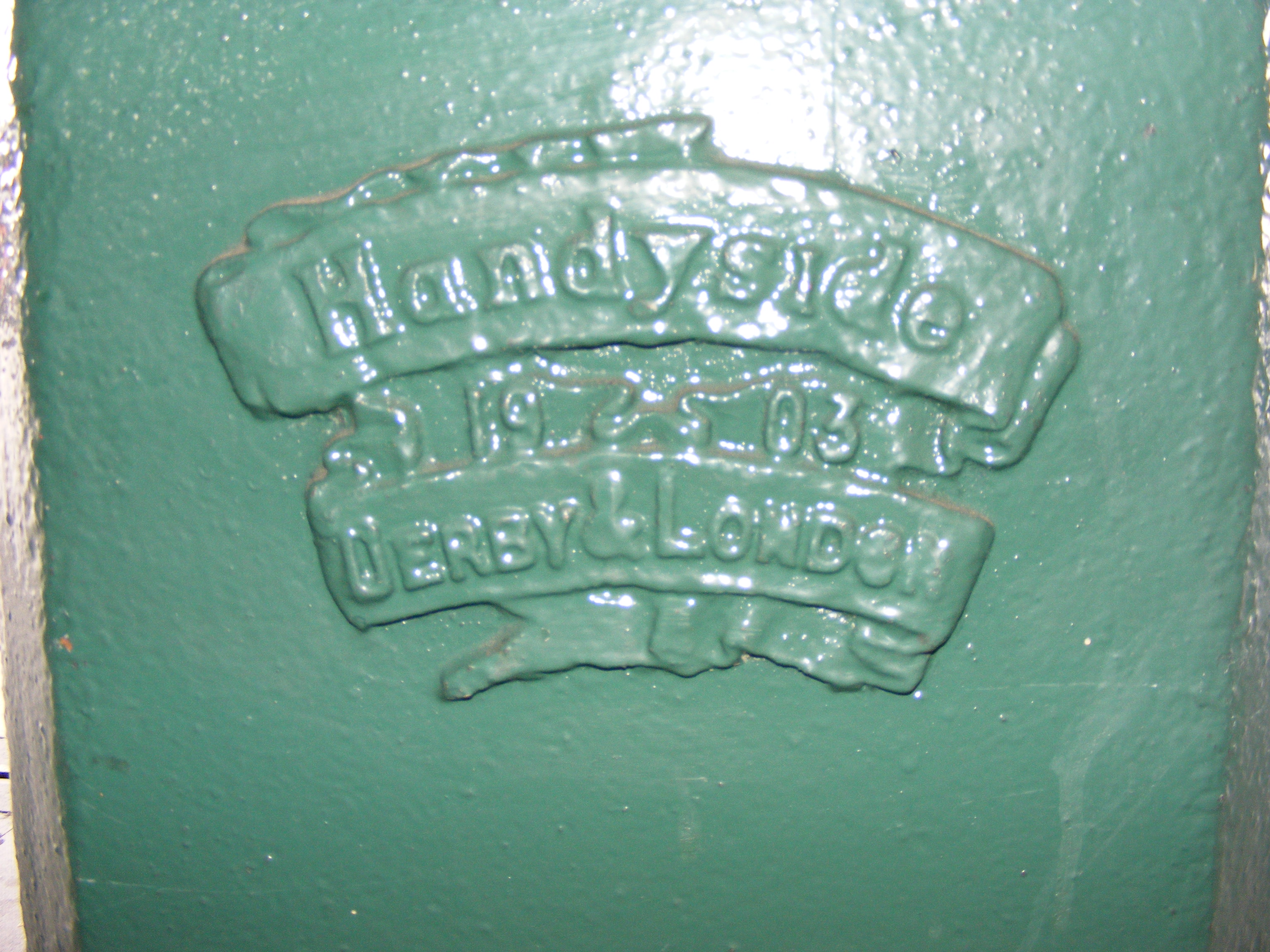 Detail of pillar at Nottingham railway station showing the name Handyside, and year 1903.